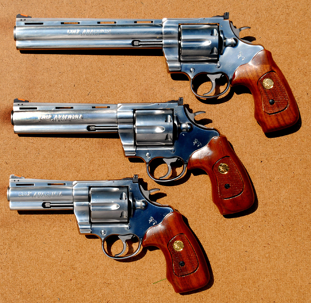 Colt Anacondas in 3 barrel lengths